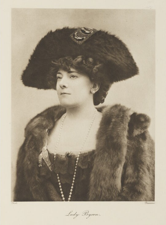 Dame Fanny Lucy Houston (née Radmall) photogravure, published 1909